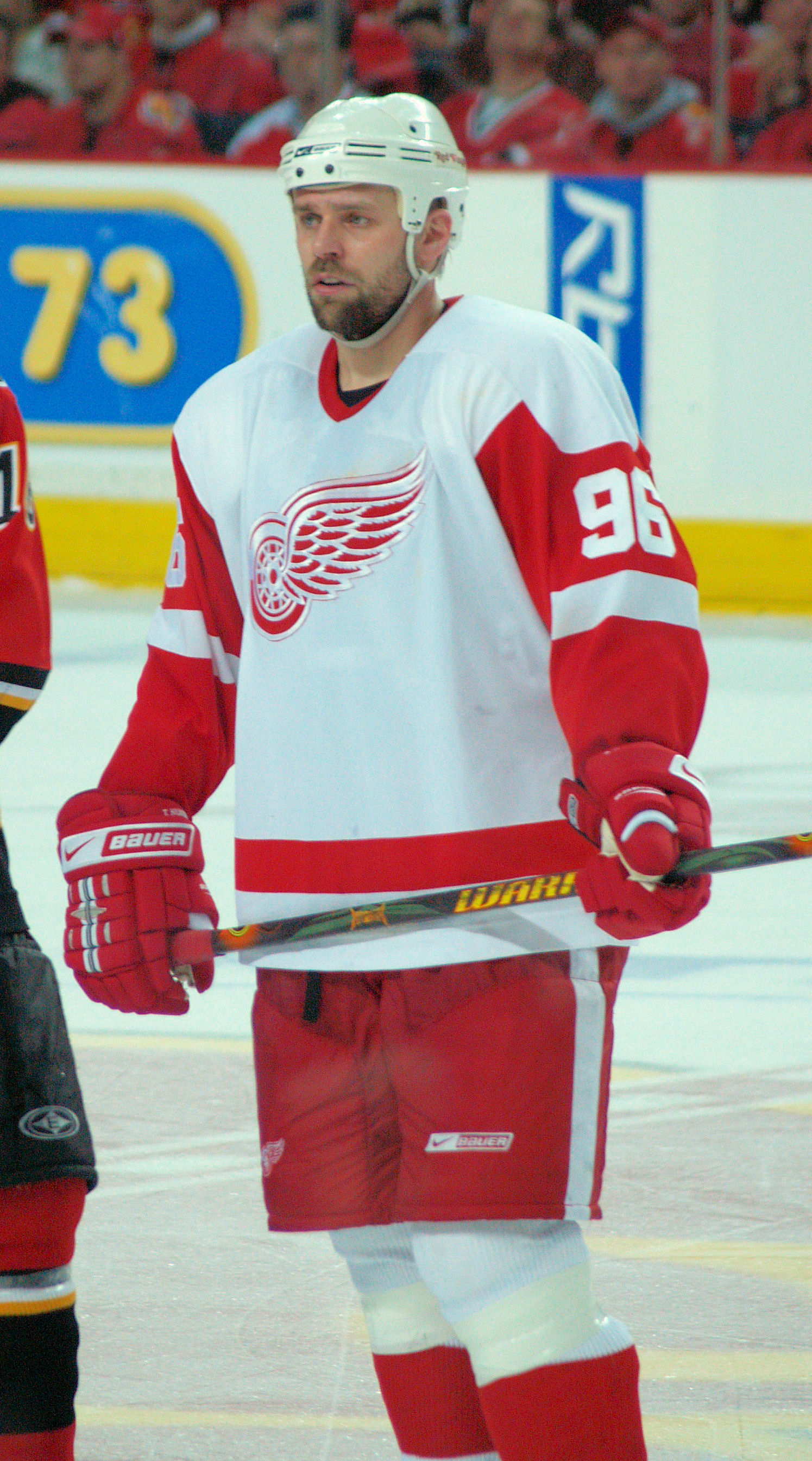 Tomas Holmstrom of the Detroit Red Wings